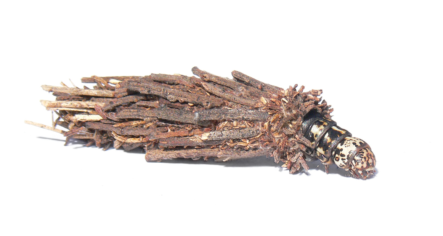 Family Psychidae. But putting a species name on it when the cases of most of them are not known is a bit risky. It could be Hyalarcta huebneri which usually decorates the case with bits of leaf but would use whatever was available.